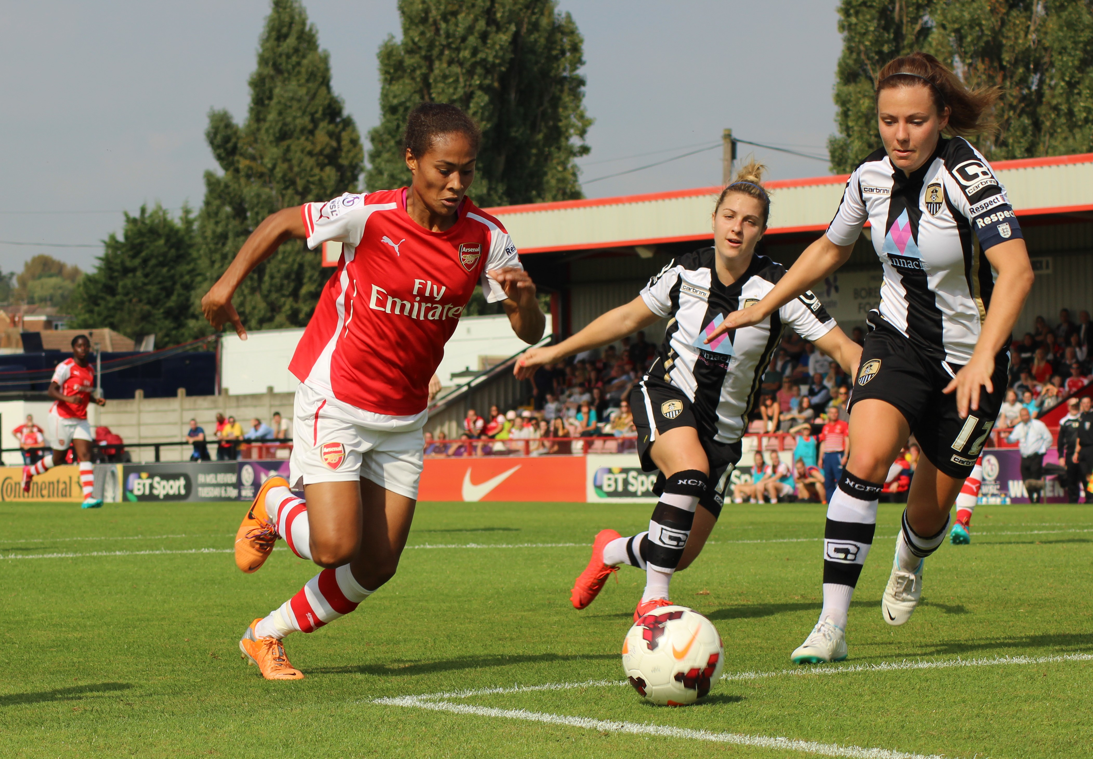 Rachel Yankey of Arsenal Ladies against Rachel Corsie of Notts County.